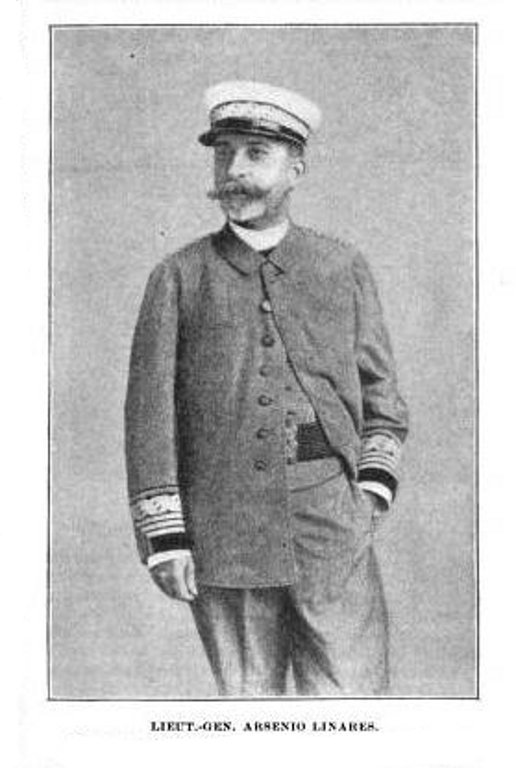 Arsenio Linares y Pombo (1848-1914) was a Spanish military man and government official.